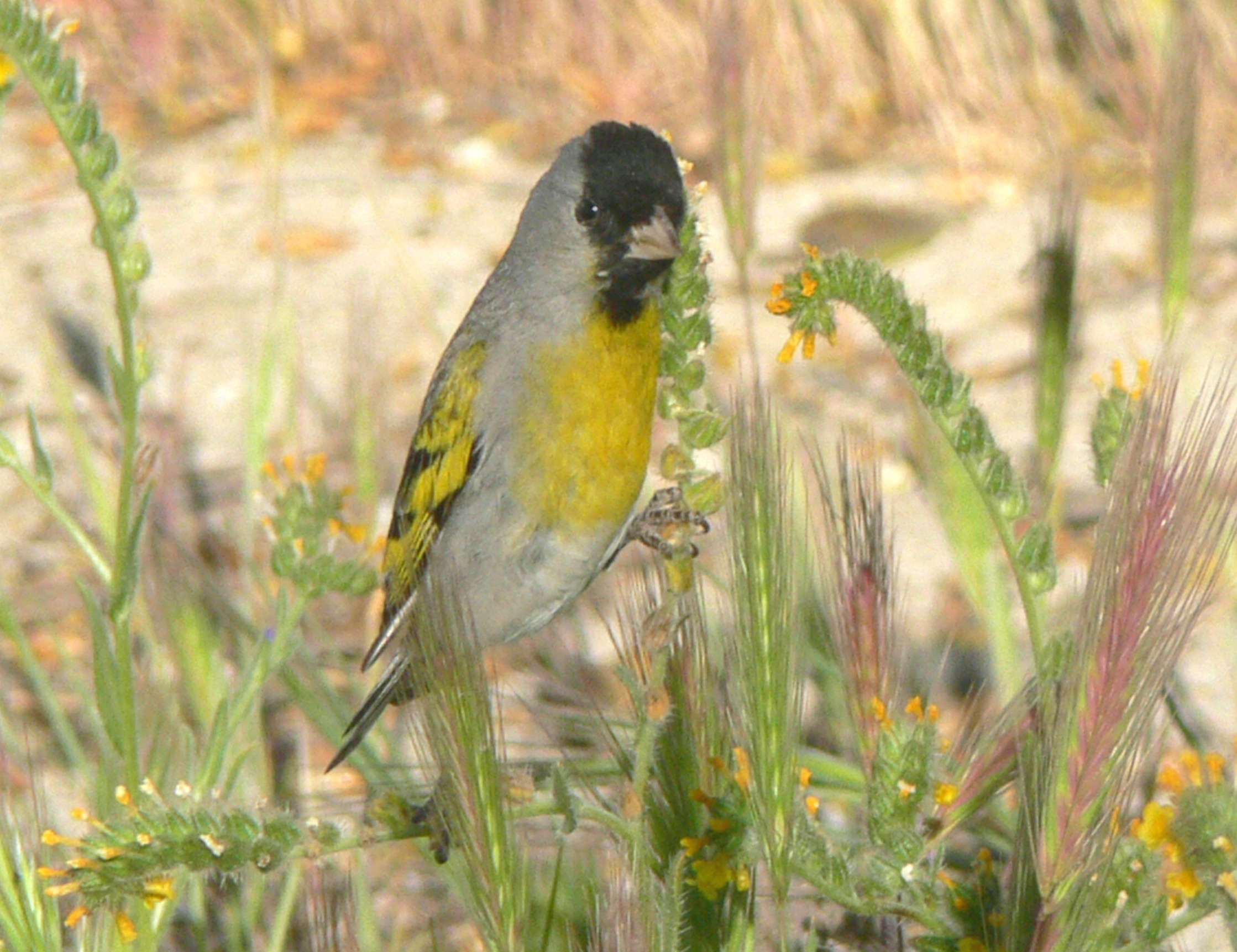 Carduelis lawrencei Lawrence's Goldfinch - Male. Chimineas Ranch, San Luis Obisbo, California.